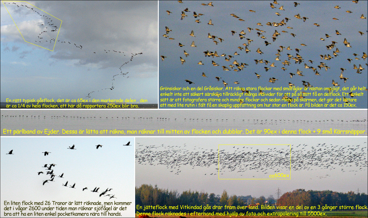 These examples of counting technique can be useful to know for those who want to learn to count large numbers of birds.